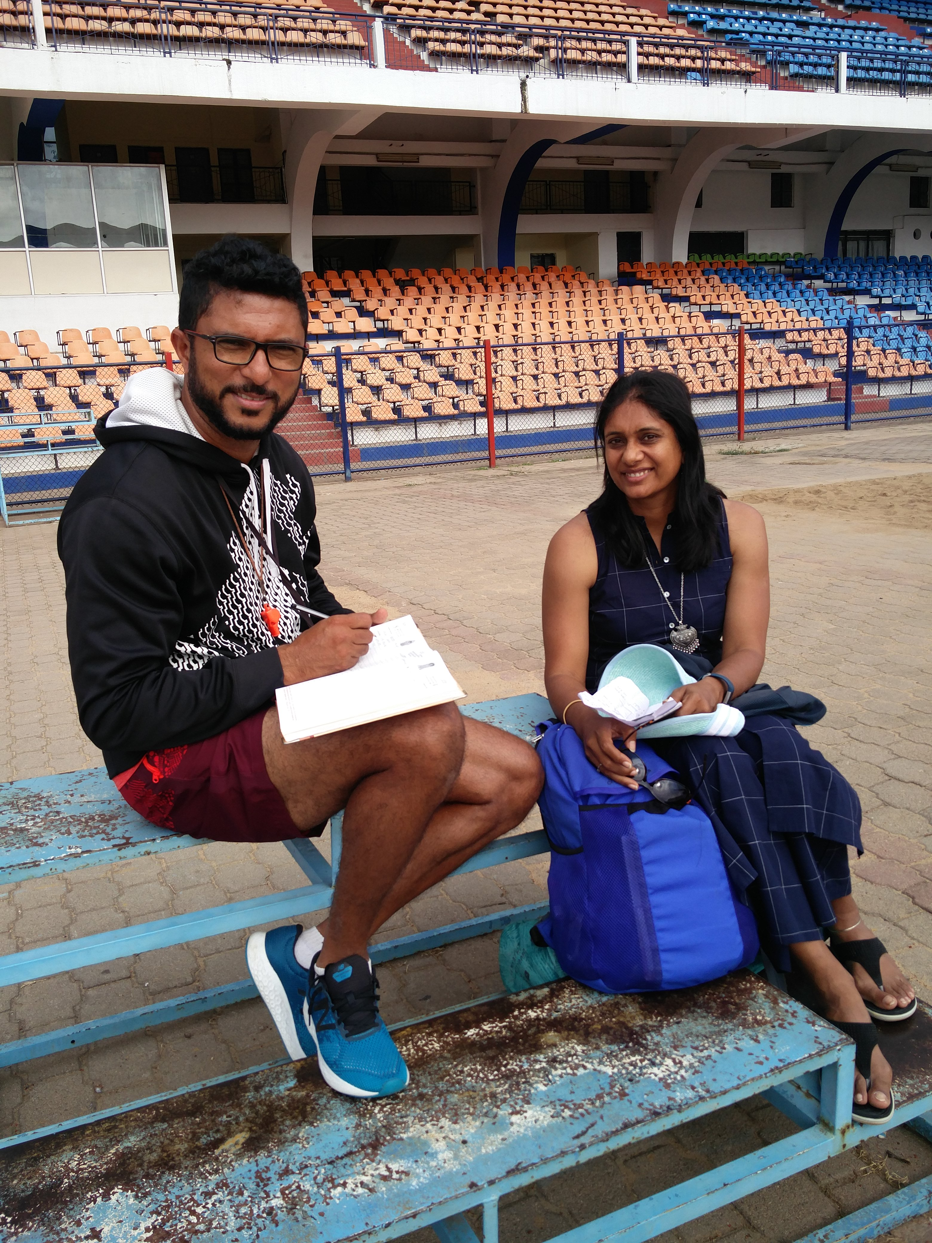 Sri Pramila Aiyappa with her husband Sri Aiyappa at Sri kantheerava Indoor Stadium 9 July 2019 ಕನ್ನಡ: ಶ್ರೀಮತಿ ಪ್ರಮೀಳಾ ಅಯ್ಯಪ್ಪ ತಮ್ಮ ಪತಿ ಶ್ರೀ ಅಯ್ಯಪ್ಪರೊಡನೆ ಶ್ರೀ ಕಂಠೀರವ ಒಳಾಂಗಣ ಕ್ರೀಡಾಂಗಣದಲ್ಲಿ ೯ ಜುಲೈ ೨೦೧೯